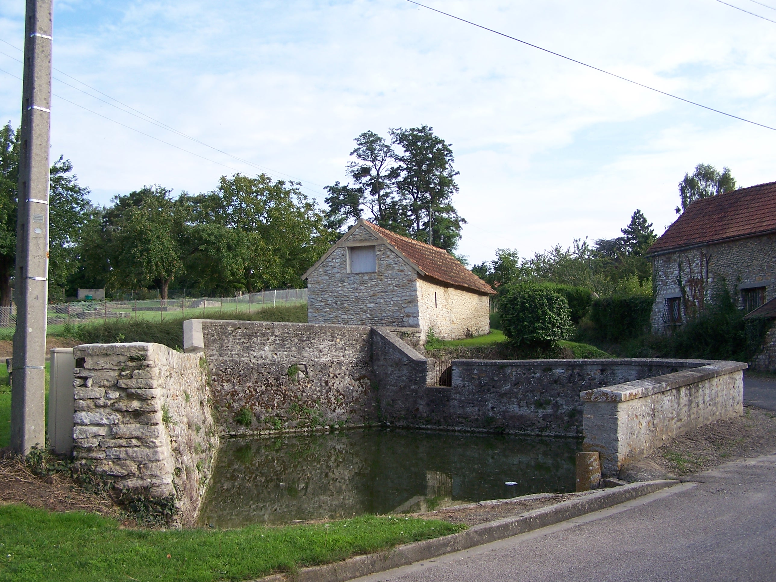 Watering place in Goupillières (Yvelines, France)